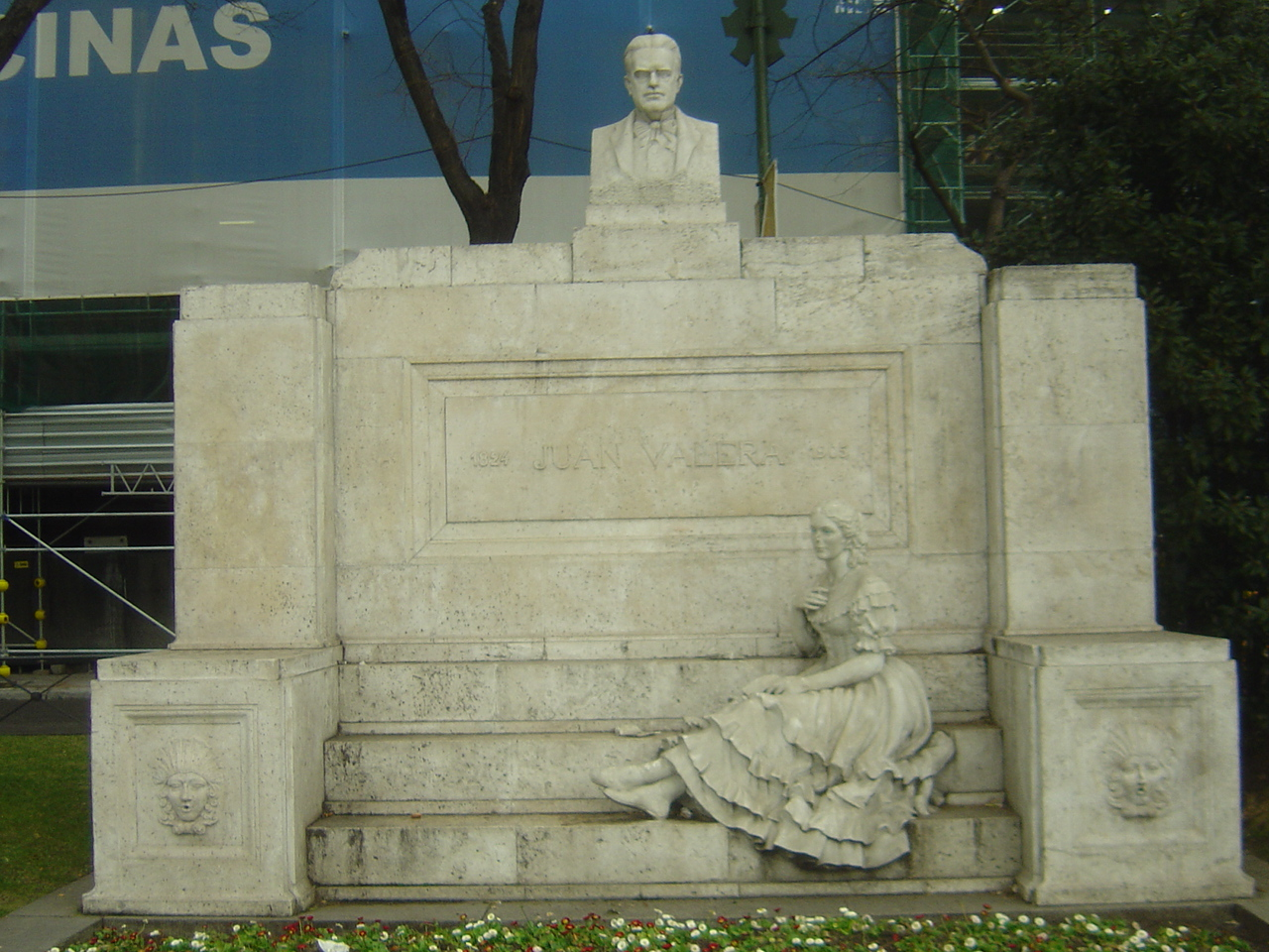 Monument to Juan Valera in Madrid